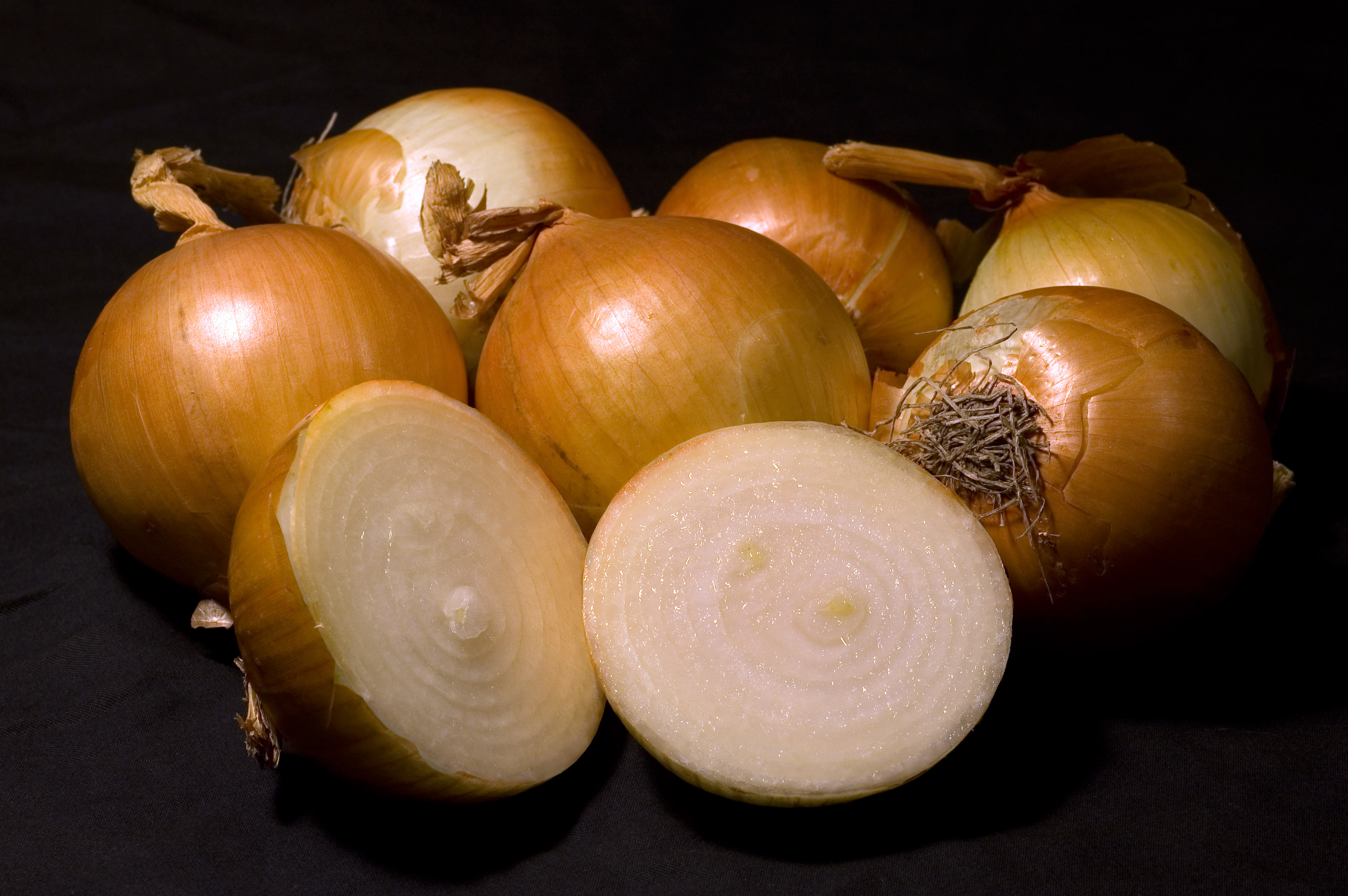 Yellow onions with cross section. Photo taken by Andrew c. Metadata 5s at f/14 Lens: AF Micro Nikkor 60 mm f/2.8D Date: 17/10/2006